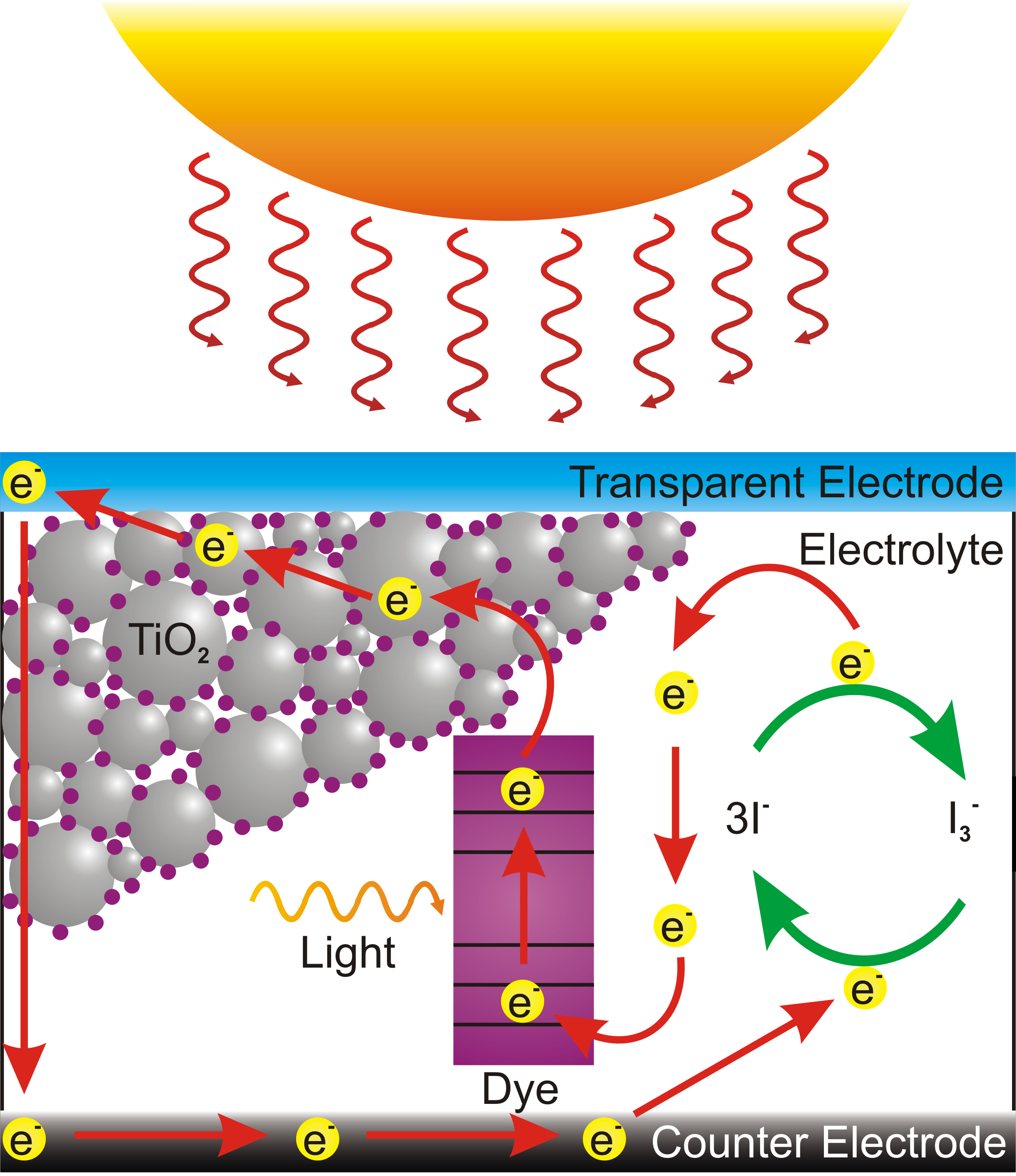 Schematic illustration of a generic dye-sensitized solar cell.